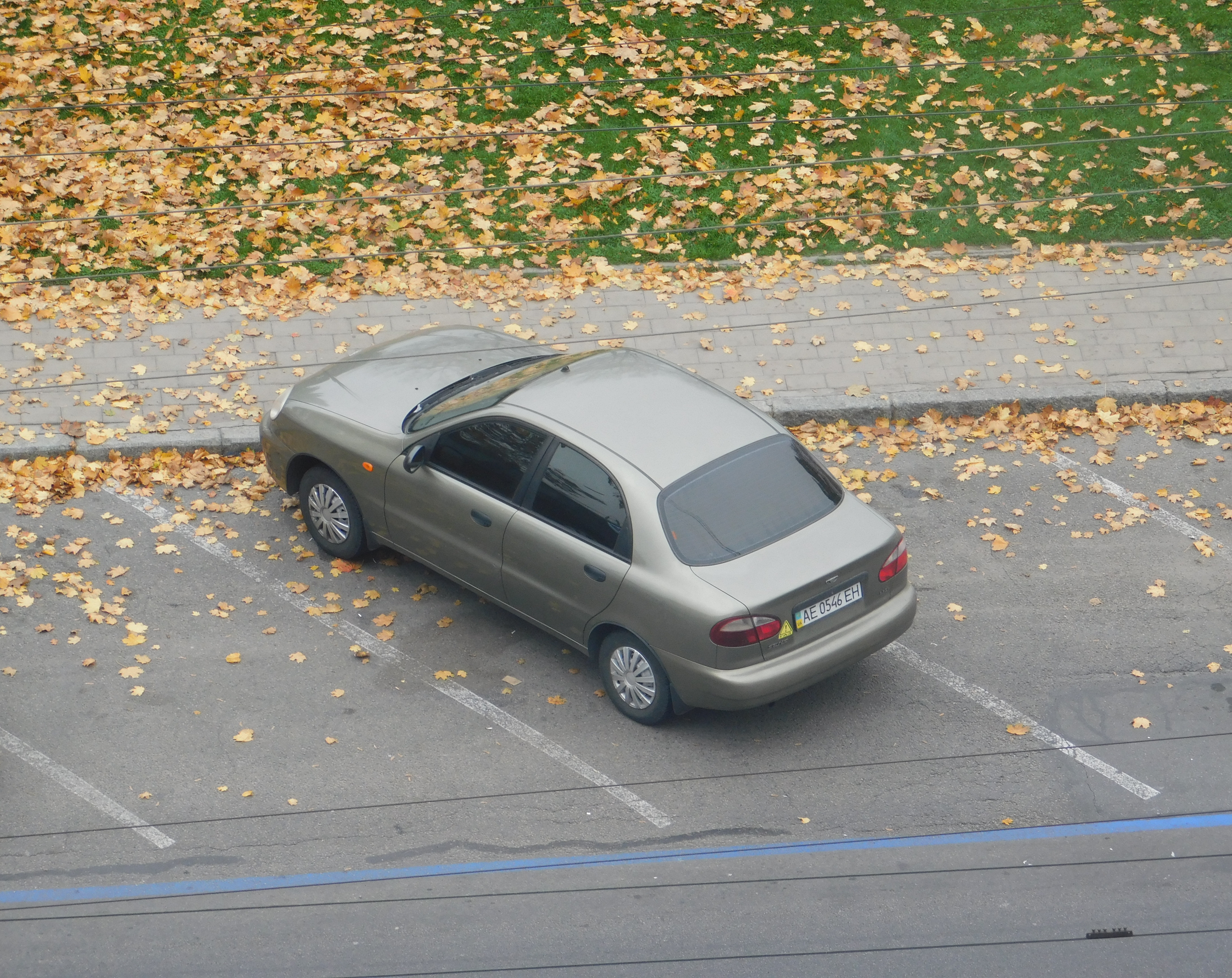 Daewoo Lanos АЕ 0546 ЕН